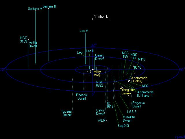 Map of the Local Group of Galaxies